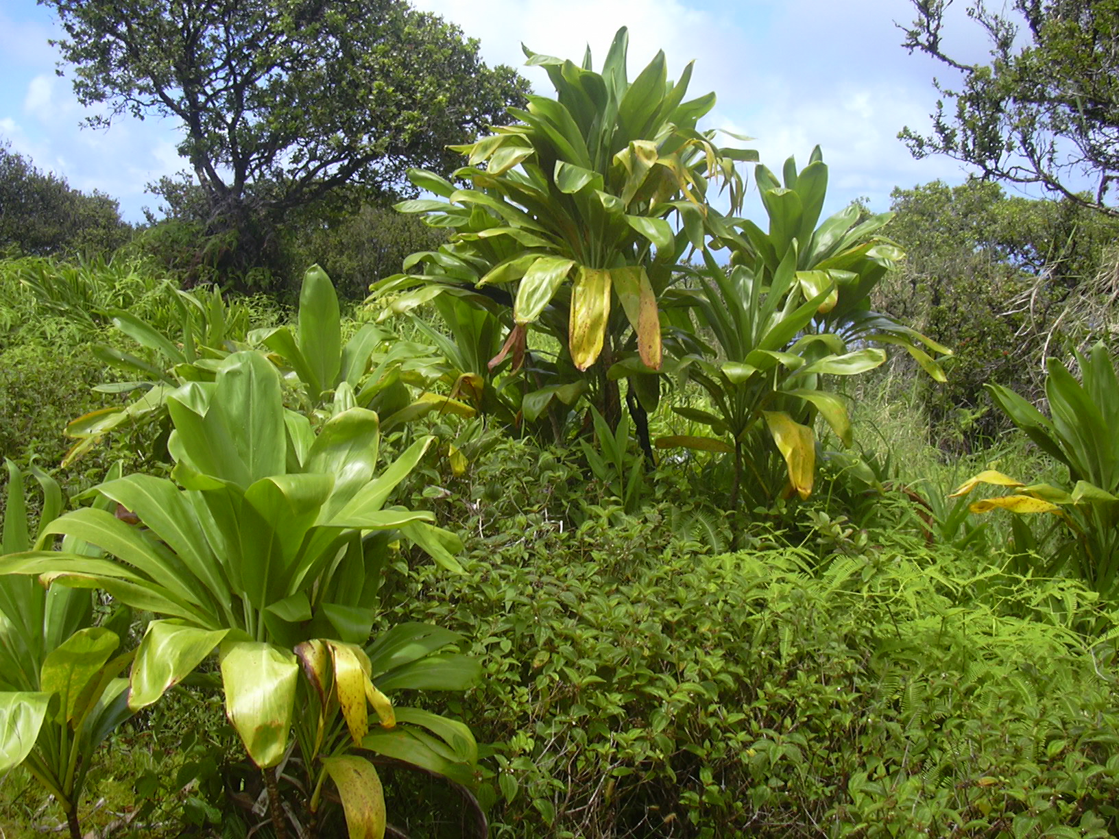 Cordyline fruticosa (habit). Location: Maui, Hanawi stream